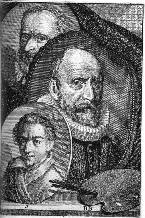 BB p 323 Mart van Valkenburgh - Chrispiaan van den Broeke - Pieter van Veen